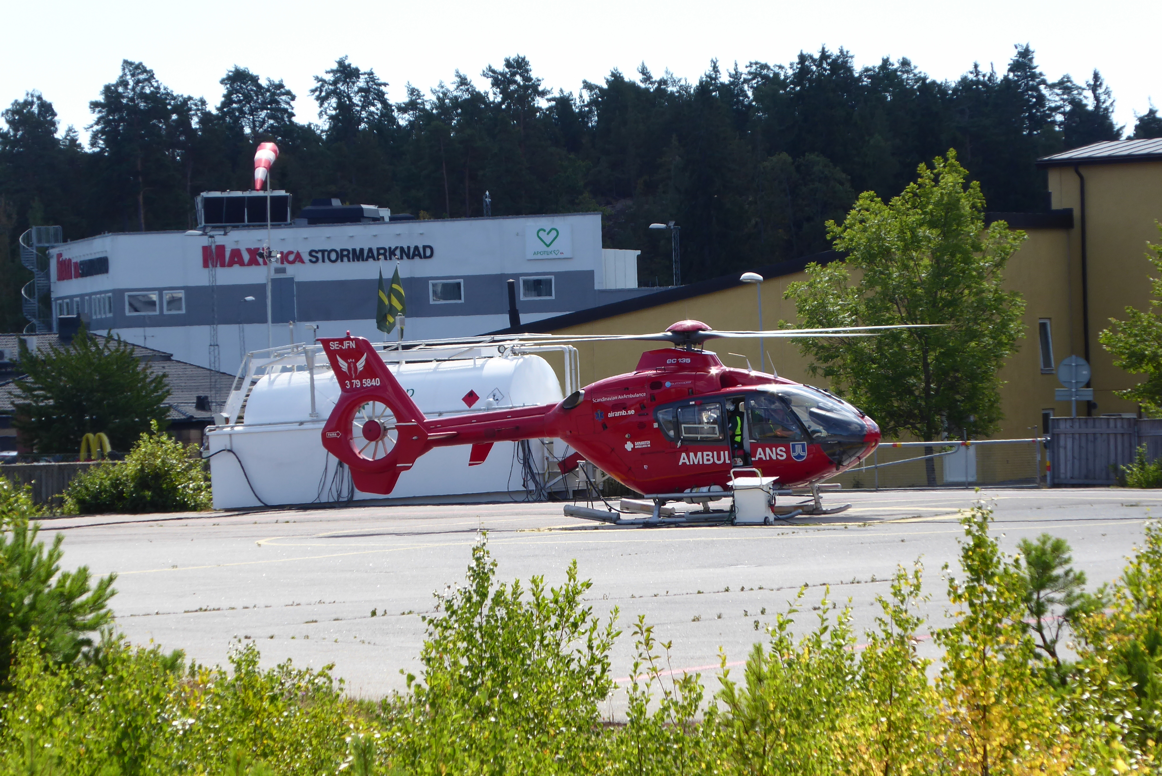 Ambulanshelikopter Eurocopter EC135 på Mölnvik heliport